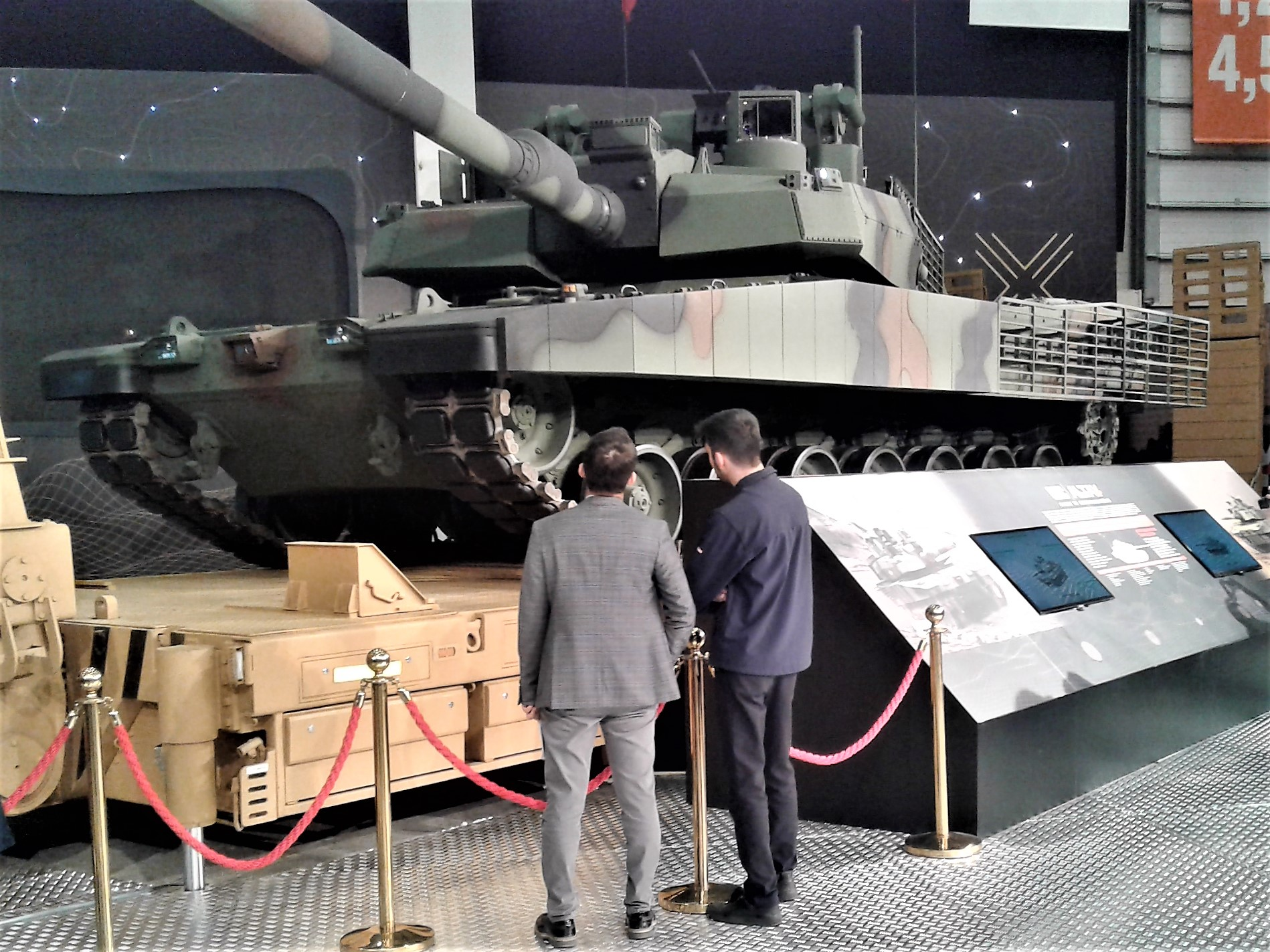 Main battle tank Altay of Otokar at the IDEF 2019 in Istanbul, Turkey.